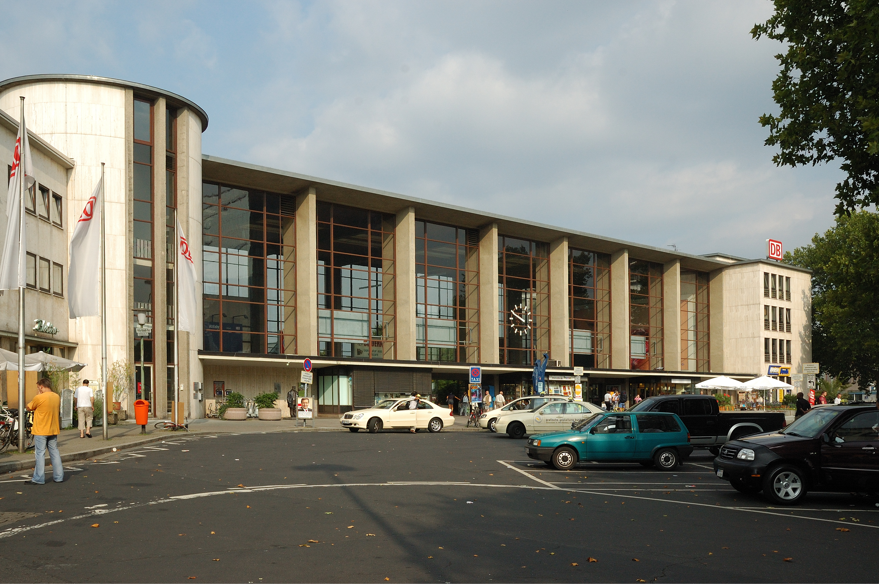 Heidelberg Hauptbahnhof, Germany